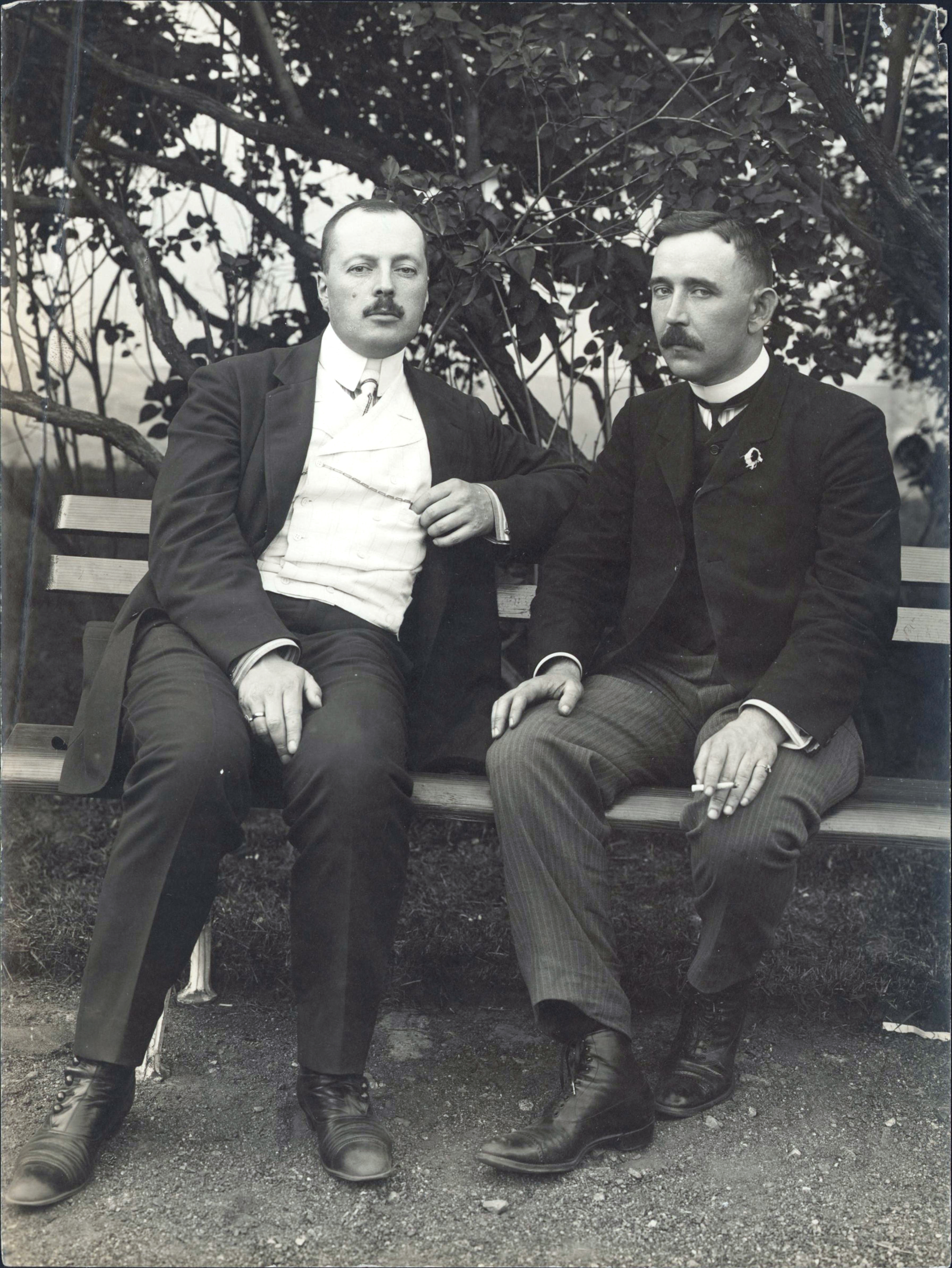 Члены I Государственной думы Владимир Набоков и Алексей Аладьин.